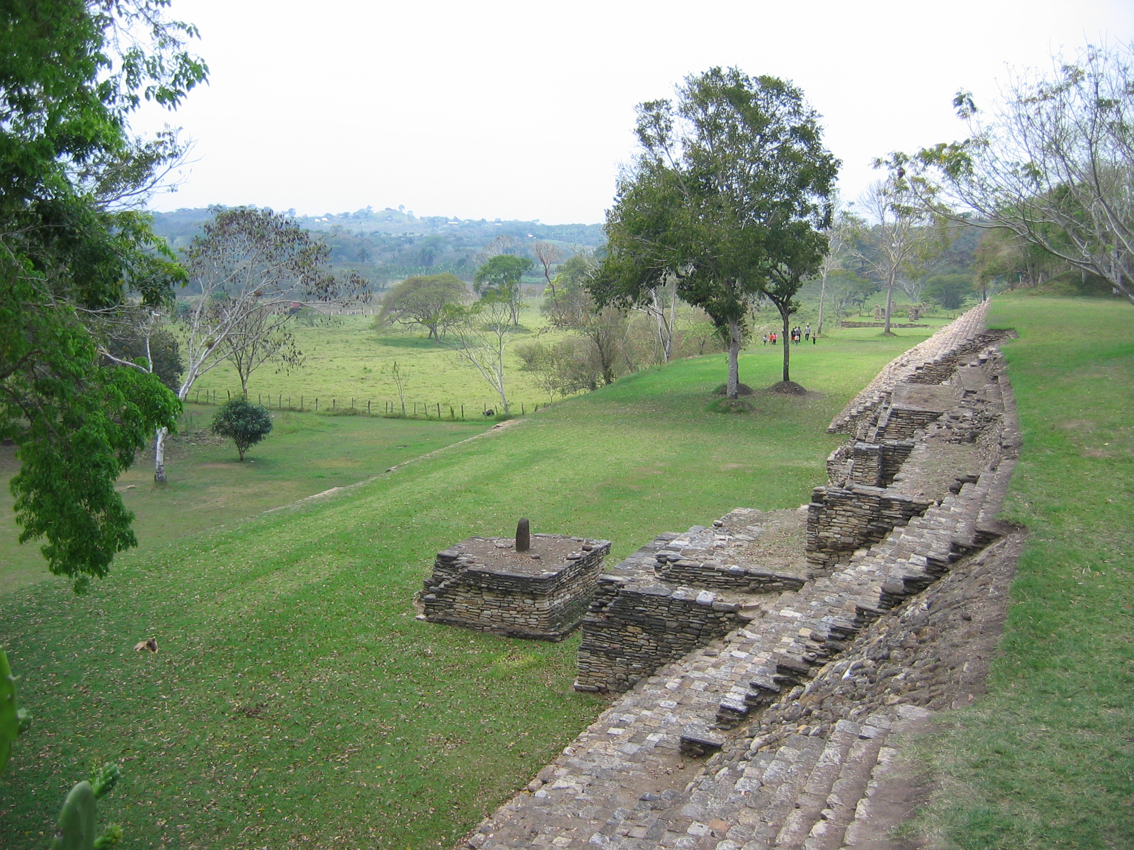 Photo taken by Poppy in March 2005. Tonina - Altar at the bottom of the hill